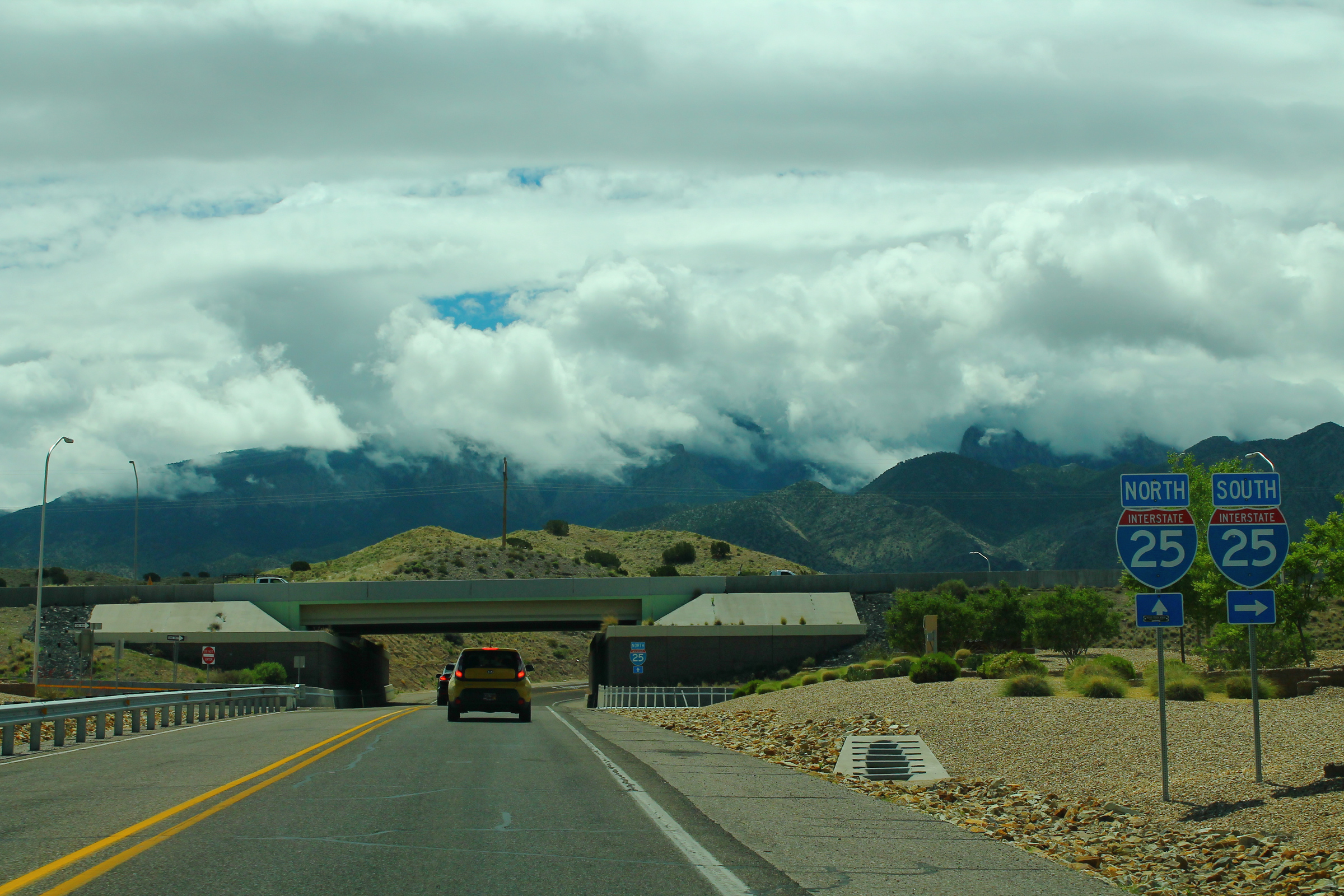 NM473eRoad-Int25nsSigns